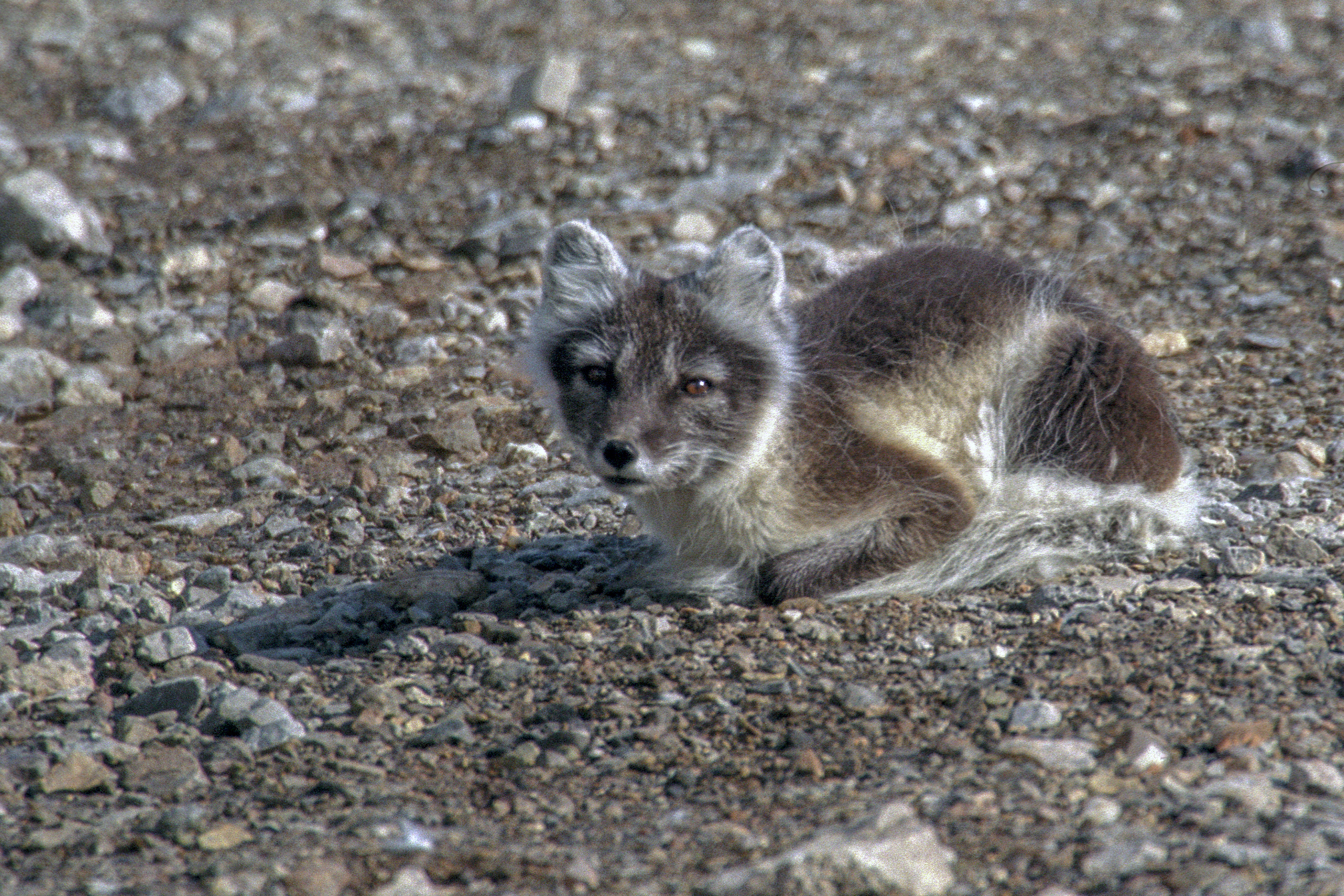 spitsbergen, arctic fox